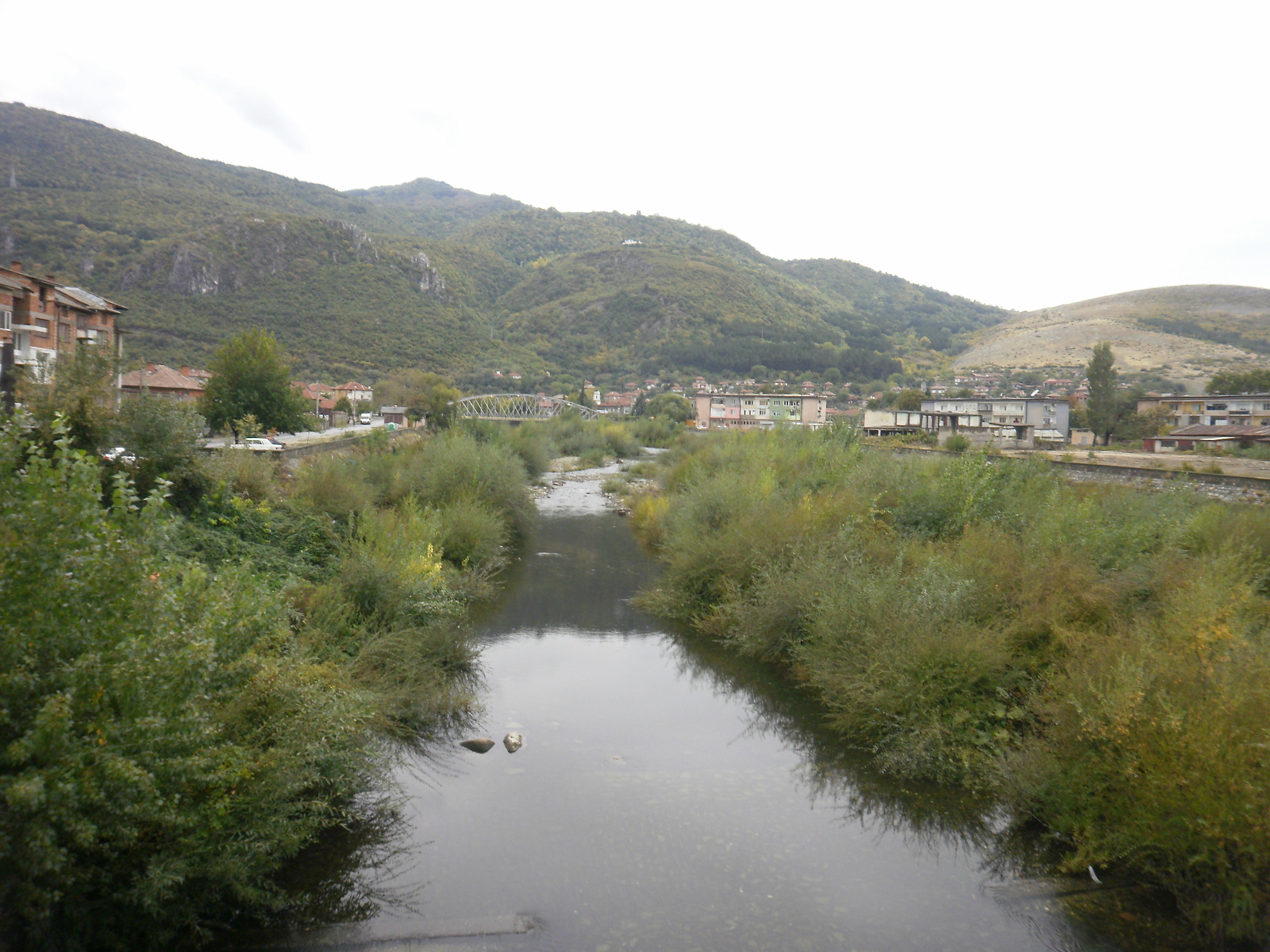 Vacha river in Krichim, Bulgaria.